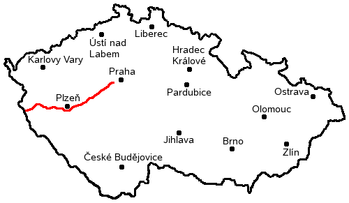 Route of the Czech Highway D5. Created by Petr Adamek in October 2005.